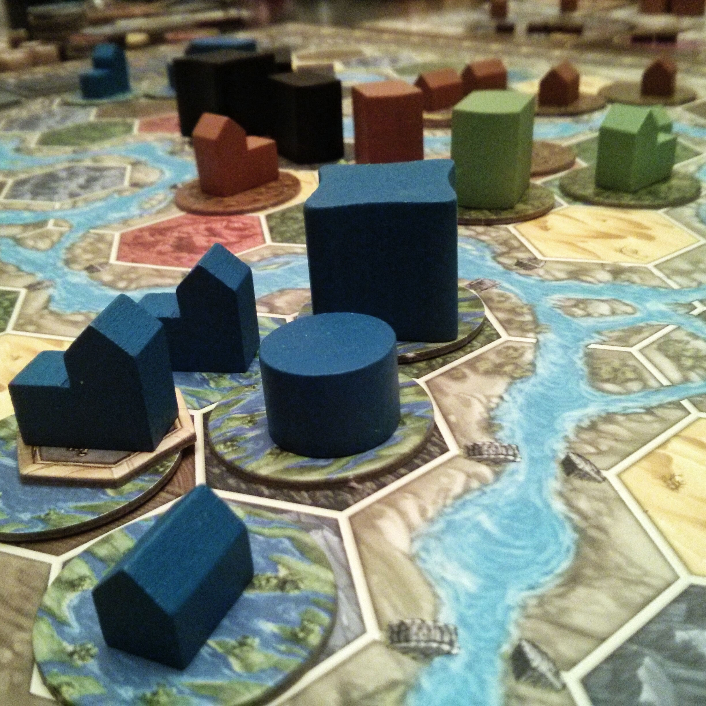 Detailed view at the board during Terra Mystica gameplay